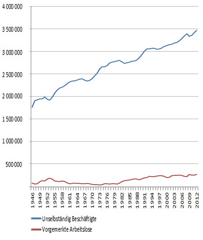 Unemployed, Austria, 1946-2012